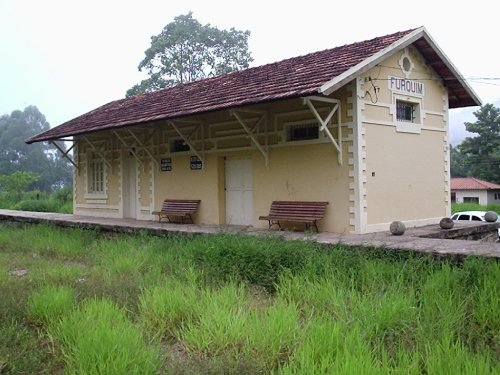 Churches in the district of Furquim, Minas Gerais, Brazil.